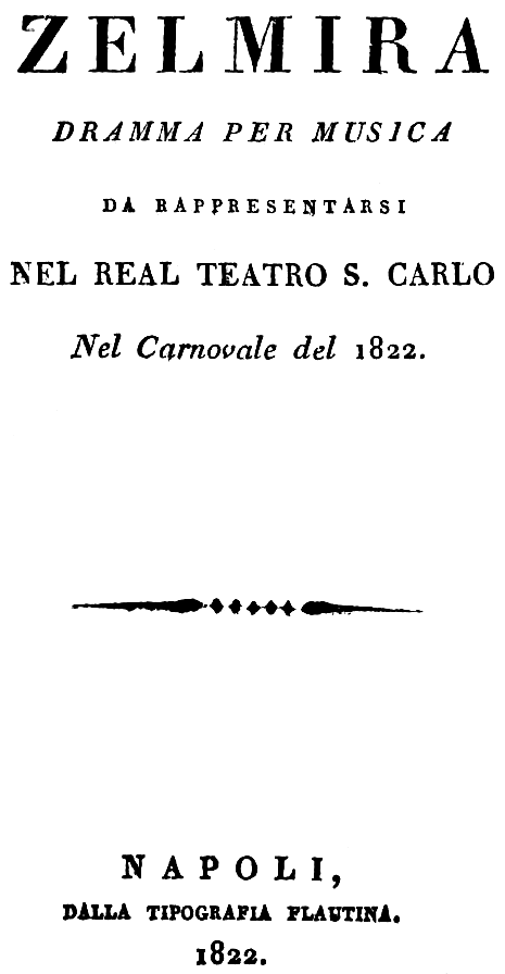 Gioachino Rossini - Zelmira titlepage of the libretto - Naples 1822